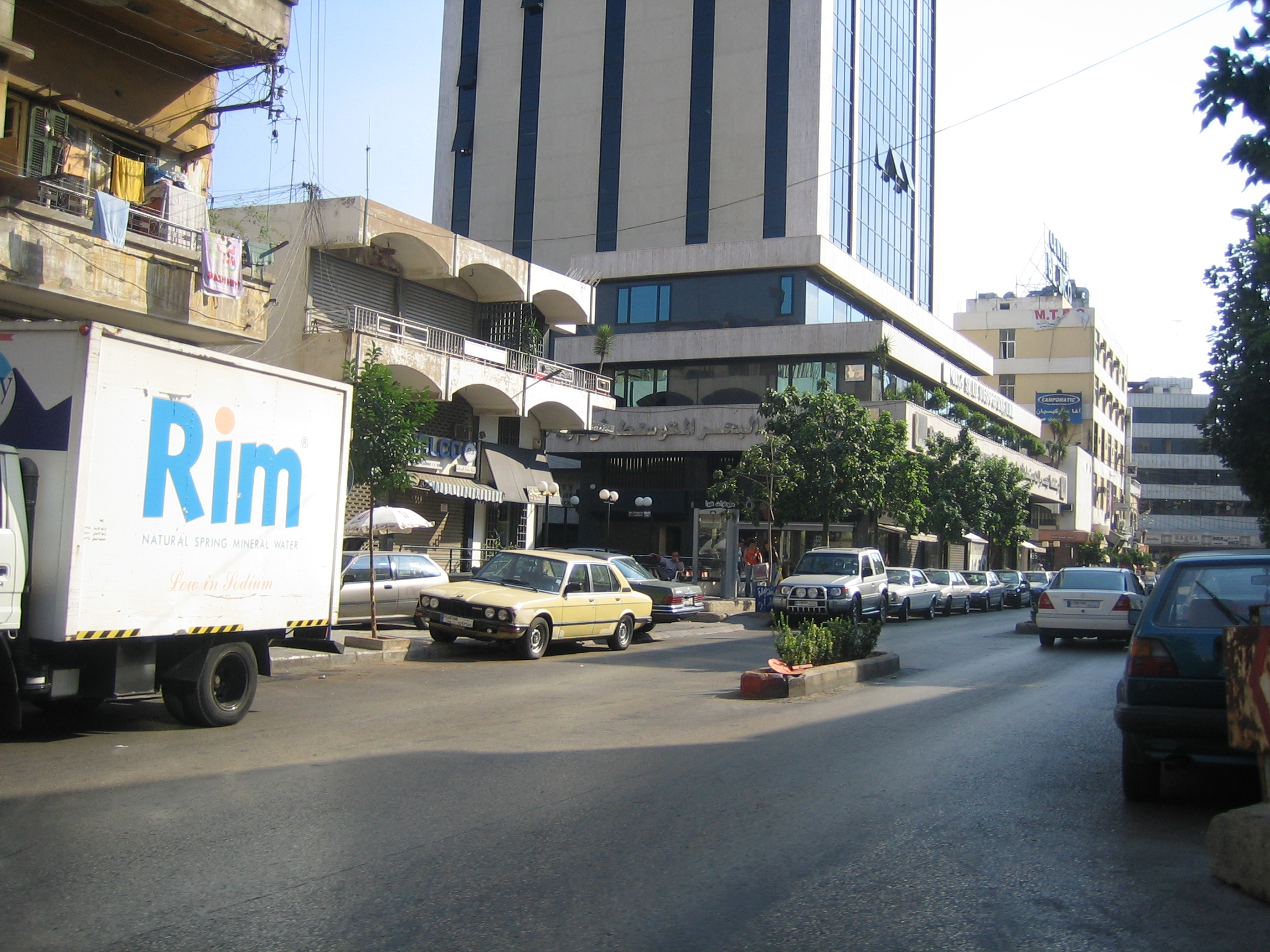 I took this picture myself in October, 2005. I release this picture to the public domain.